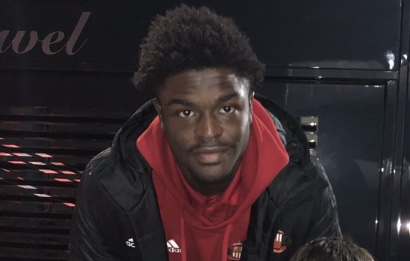 Photo taken by myself of Josh Maja following the Walsall Vs. Sunderland game on November 24 2018 at Bescot Stadium.